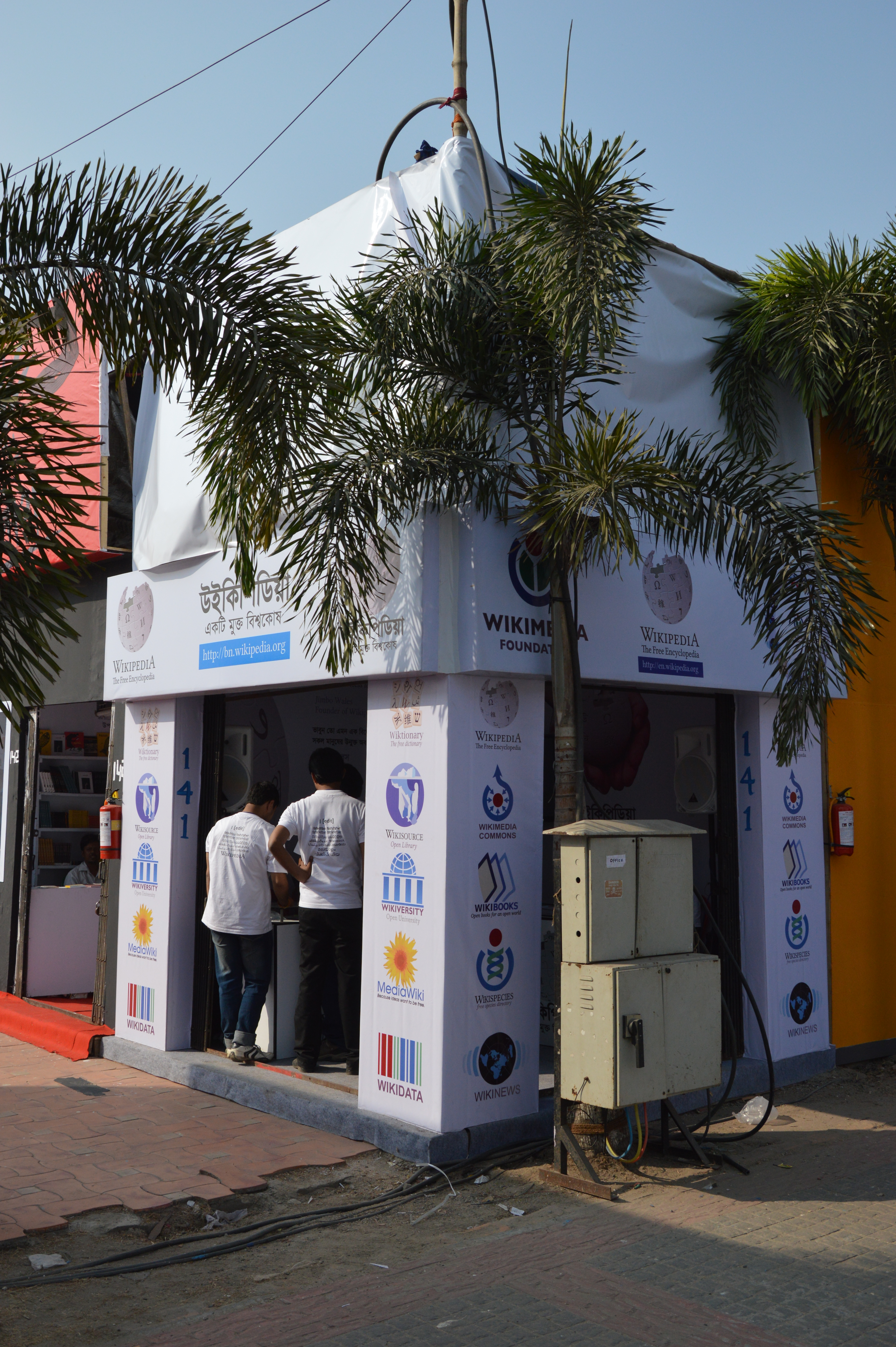 The Wikimedia Stall at 38th International Kolkata Book Fair, Milan Mela Complex, Kolkata.